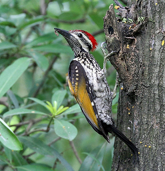 Black-rumped Flameback Dinopium benghalense in Kolkata, West Bengal, India.